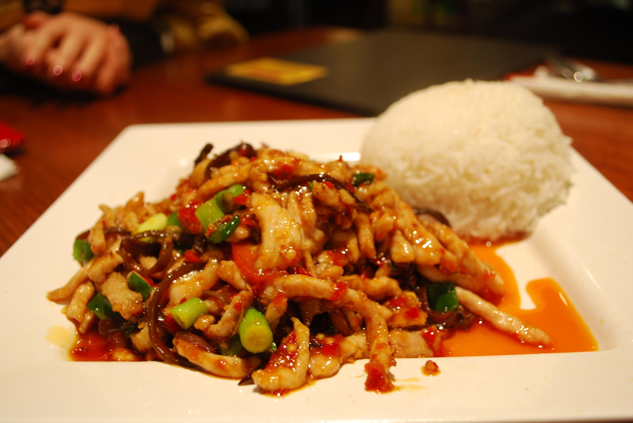 fish flavour threaded pork